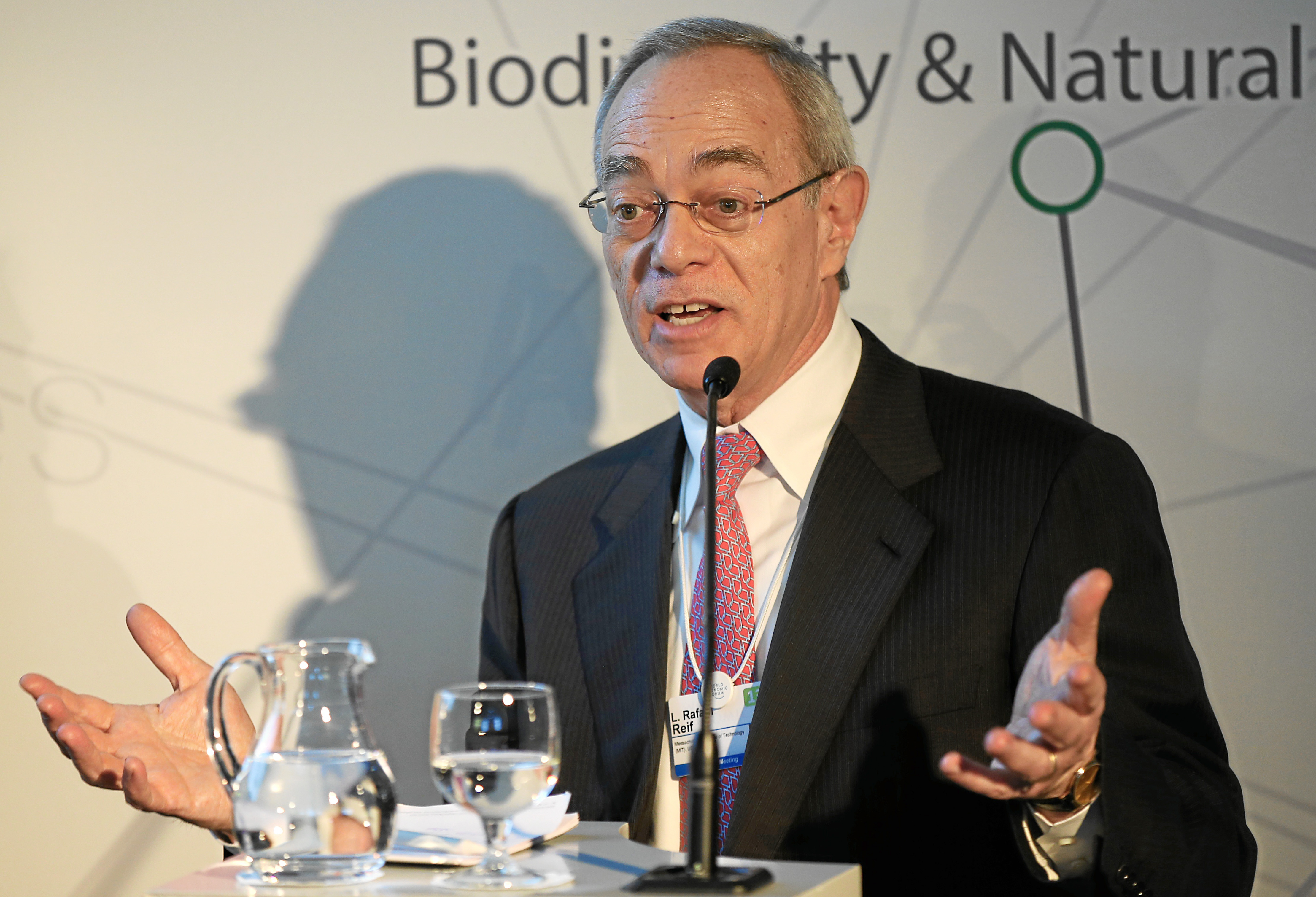 DAVOS/SWITZERLAND, 24JAN13 - L. Rafael Reif, President, Massachusetts Institute of Technology, USA raises while speakin during the session 'The Future of Higher Education' at the Annual Meeting 2013 of the World Economic Forum in Davos, Switzerland, January 24, 2013. . . Copyright by World Economic Forum. . Mirko Ries